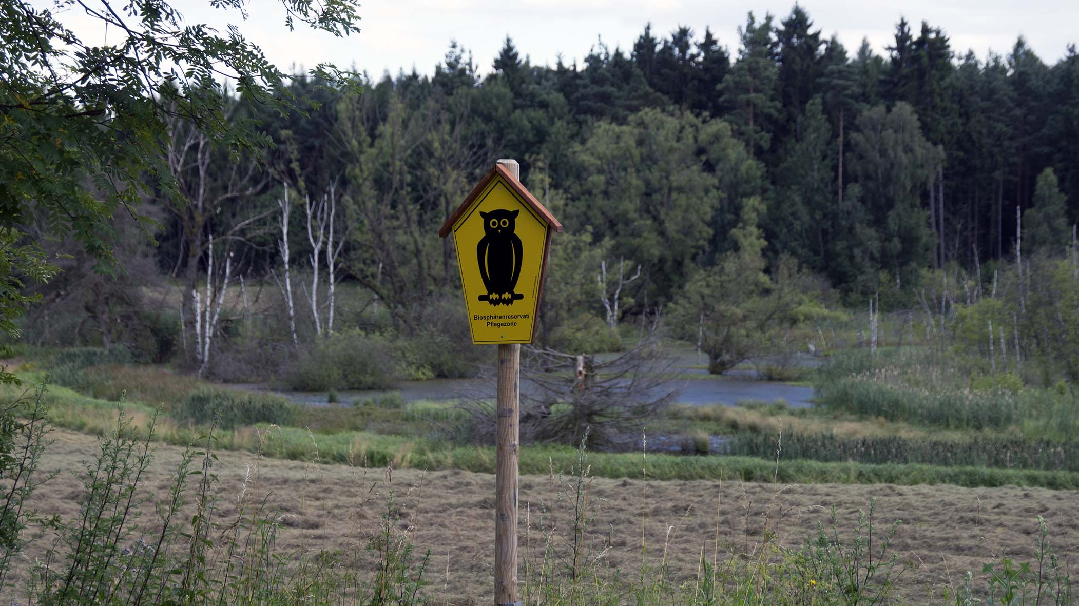 moorland of Stedtlingen